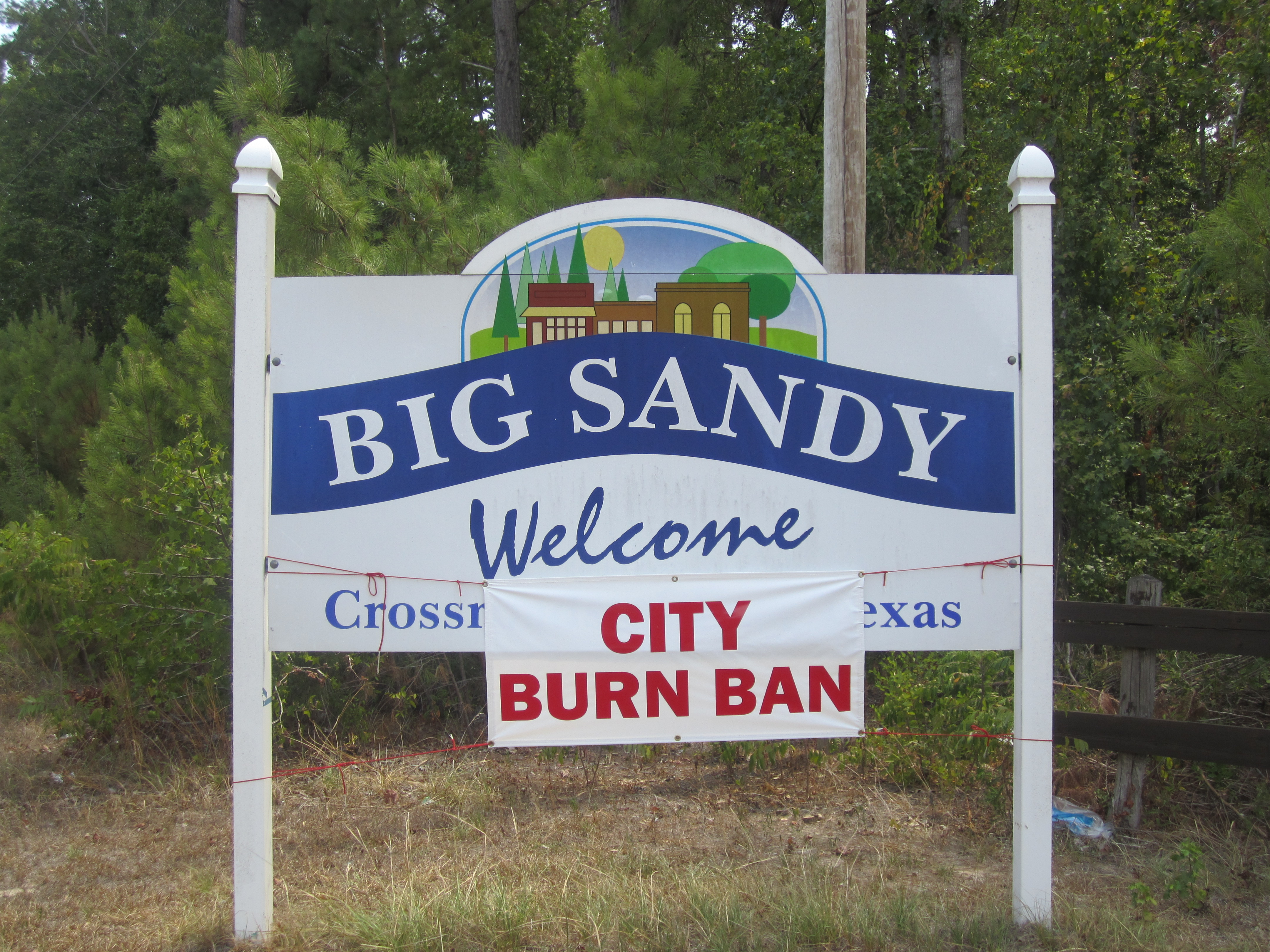 I took photo of Big Sandy, TX, sign with Canon camera.